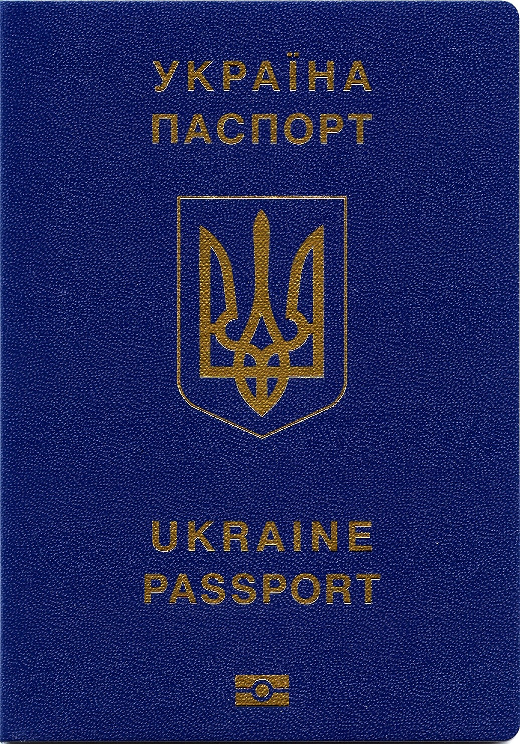 Ukrainian biometric passport cover (2015)